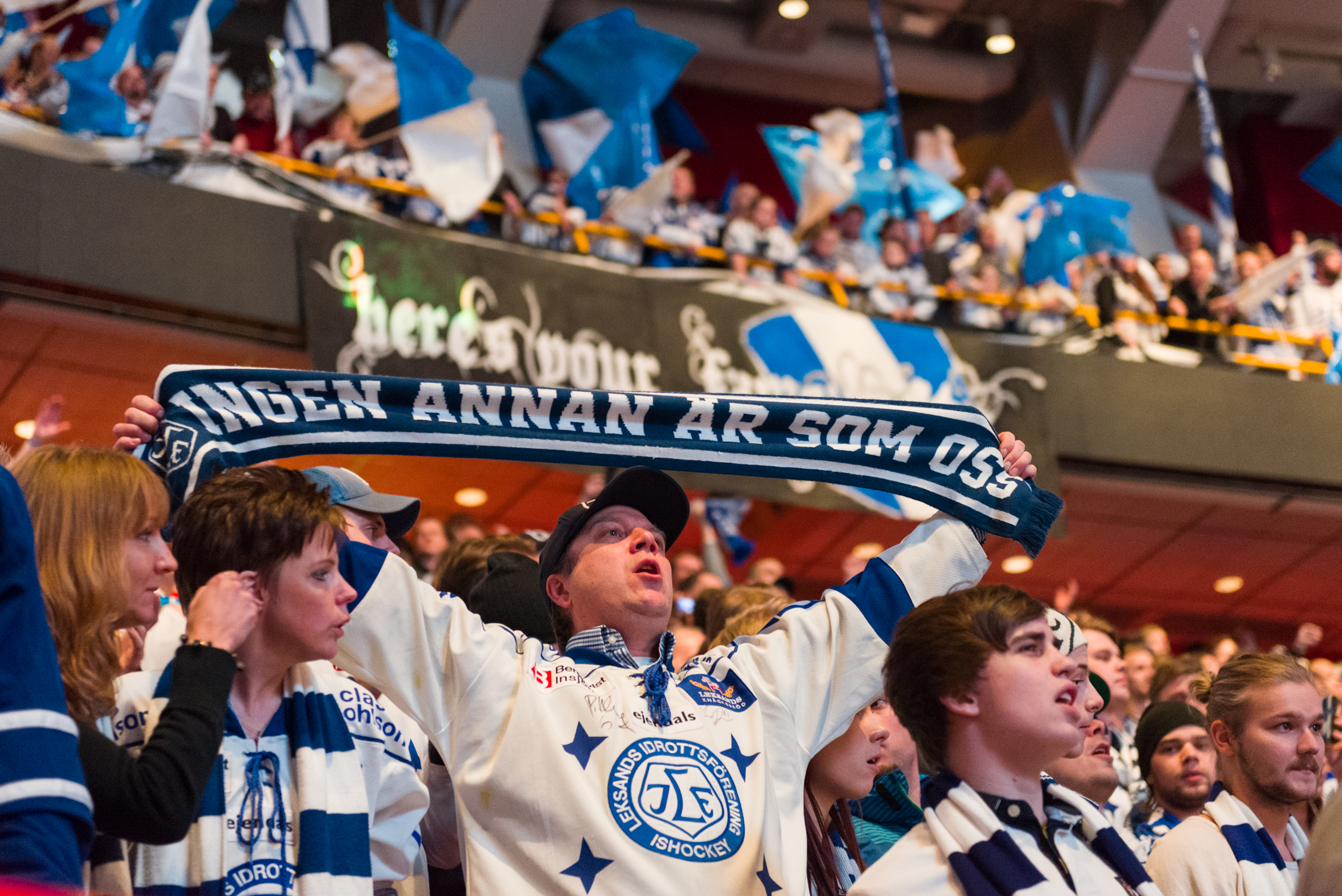 Supporters from Leksand IF. Match between Leksand and Mora in Hockeyallsvenskan (Swedish second league), Stockholm 2013-01-05.